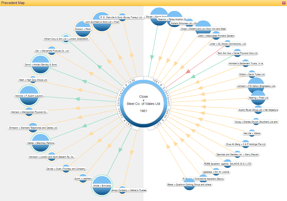 JustCite's Precedent Map for the case Close v Steel Co. of Wales Ltd.